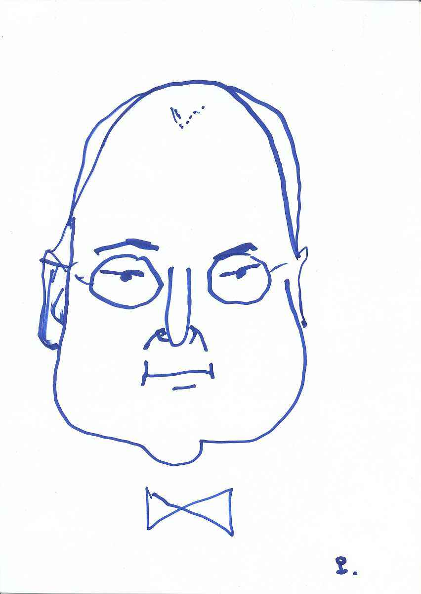 László Jenei Hungarian publicistUnknown jenei lászló magyar publicista, író, riporter